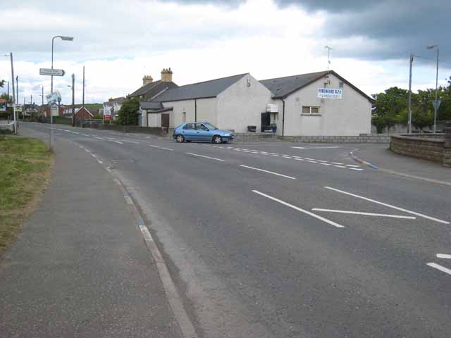 Portavogie HPS and Social Club On the A2 Main Road through Portavogie. HPS stands for Homing Pigeon Society.